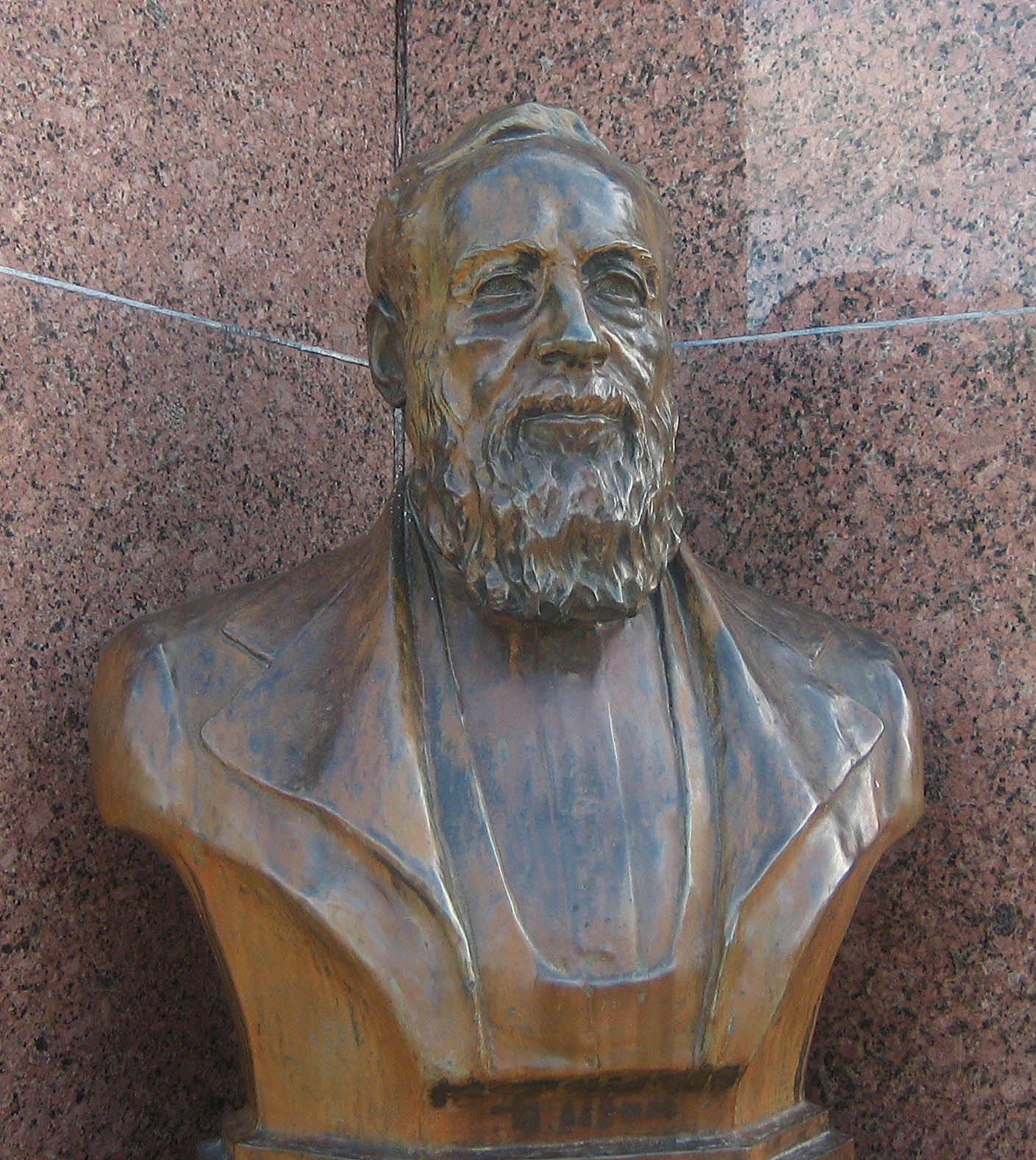 John O. Meusebach statue, Fredericksburg, TX John O. Meusebach statue. Charlotte A. Tremper sculpted the bust. I took photo on July 18, 2008.Billy Hathorn (talk) 18:29, 20 July 2008 (UTC)